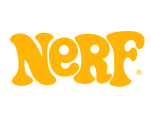 Nerf logo (1960s - 1990s)